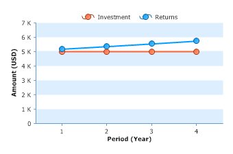 Single_deposit.png